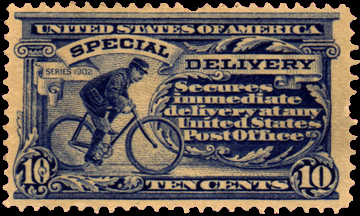 US postal stamp from 1902 for special delivery service, depicting a bicycle courier